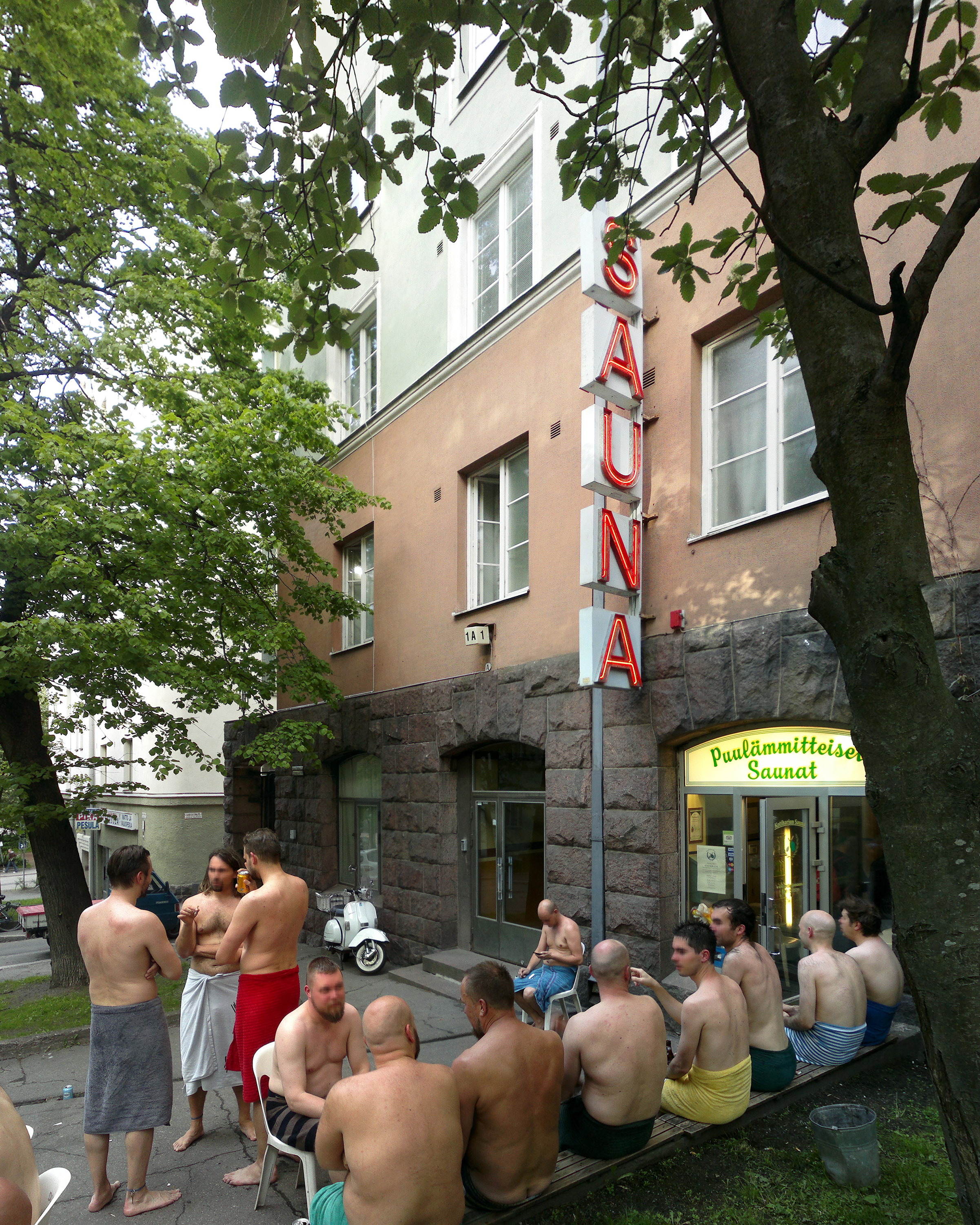 Kotiharjun sauna (Harjutori sauna), a public sauna at Kallio district, Helsinki, Finland. Address: Harjutorinkatu 1 00500 Helsinki